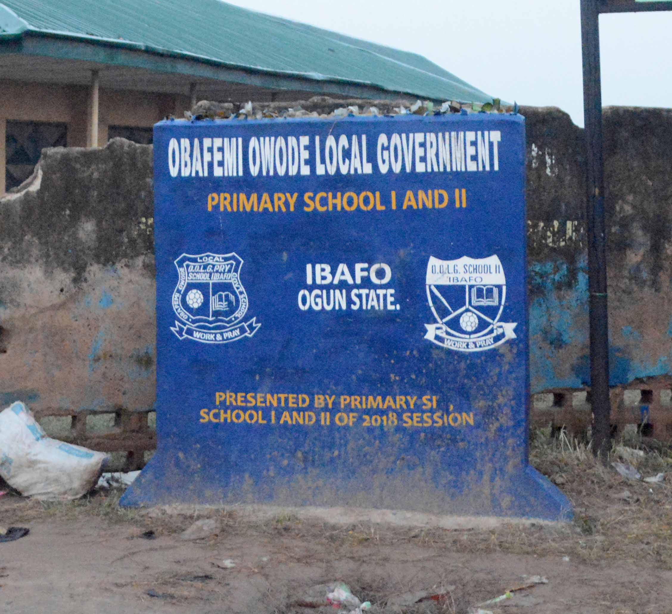 Ibafo community Primary School, Obafemi Owode Local Government